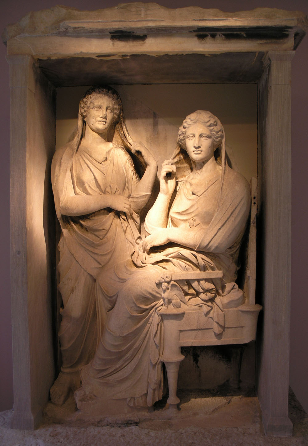 Demetria and Pamphile-(Funerary Stele), Athens, 4th c. BC. Kerameikos Archaeological Museum in Athens.